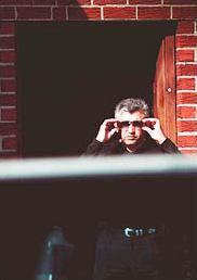 This is an FBI surveillance photograph of Albanian-American mobster, Alex Rudaj, boss of the Rudaj Organization, outside Jimbo's Bar in Astoria, Queens on April 15, 2003. This is a federal photo that is under public domain. Obtained image from [1] ([2]).